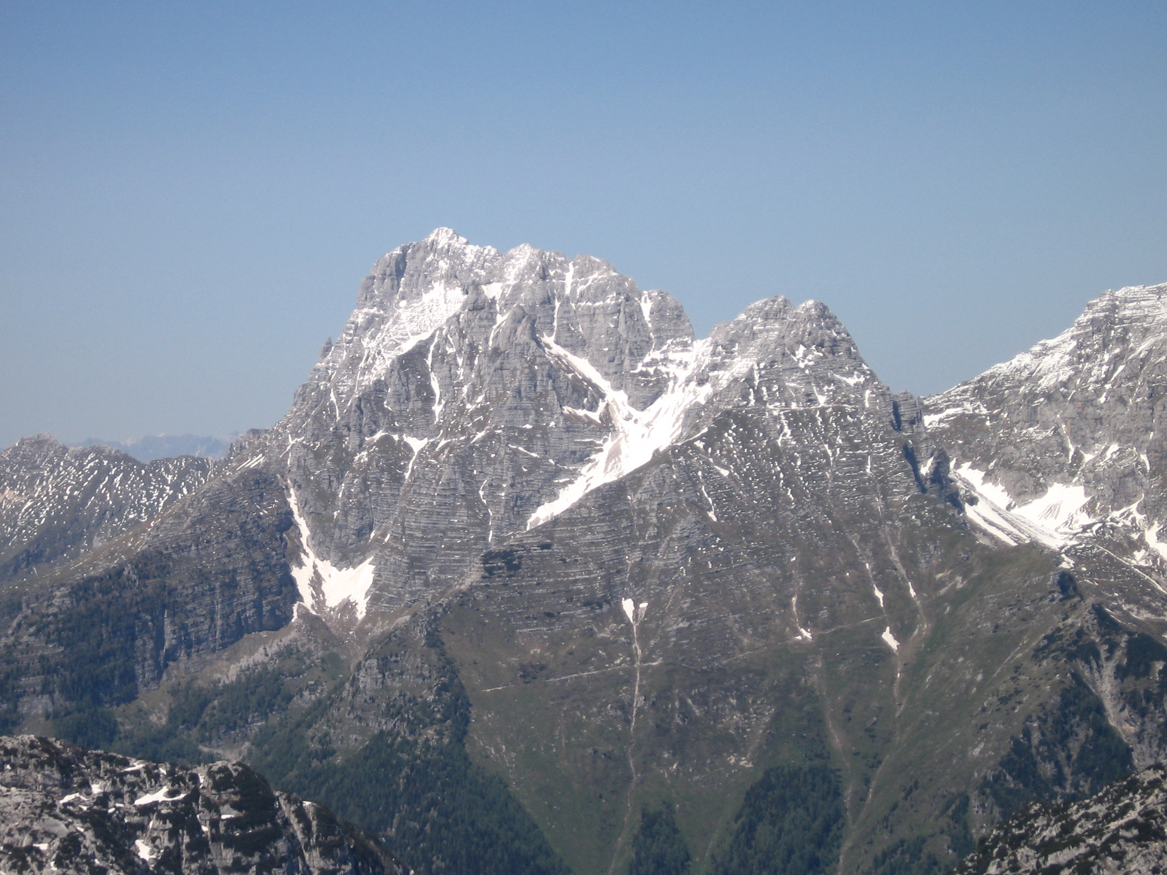 southern walls of Mt. Montaž / Montasch above Pecol meadow, SE Italy, from Rombon.